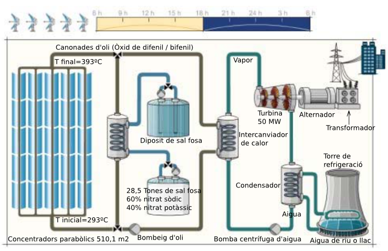 Solar power plant of Andasol